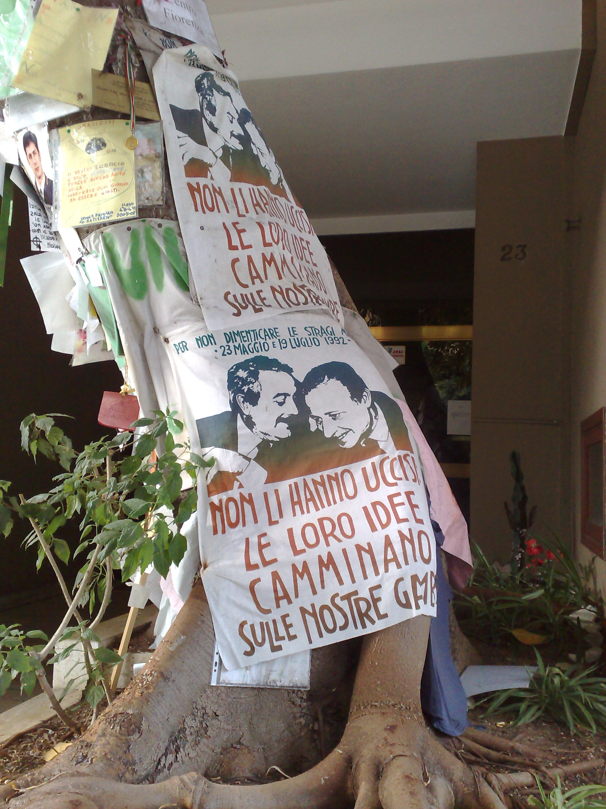 Giovanni Falcone memorial tree, in Palermo